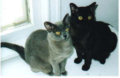 Burmese cats by brian tripp